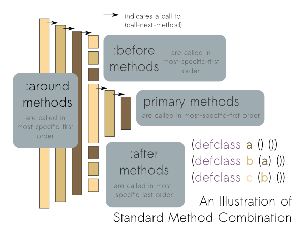 illustration of